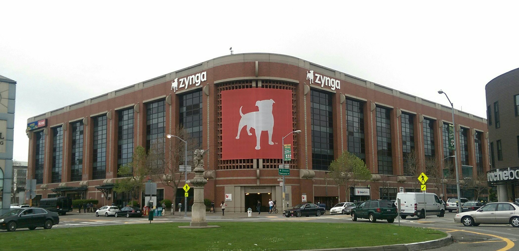 Zynga world headquarters in San Francisco, California. Photo by Jim Heaphy